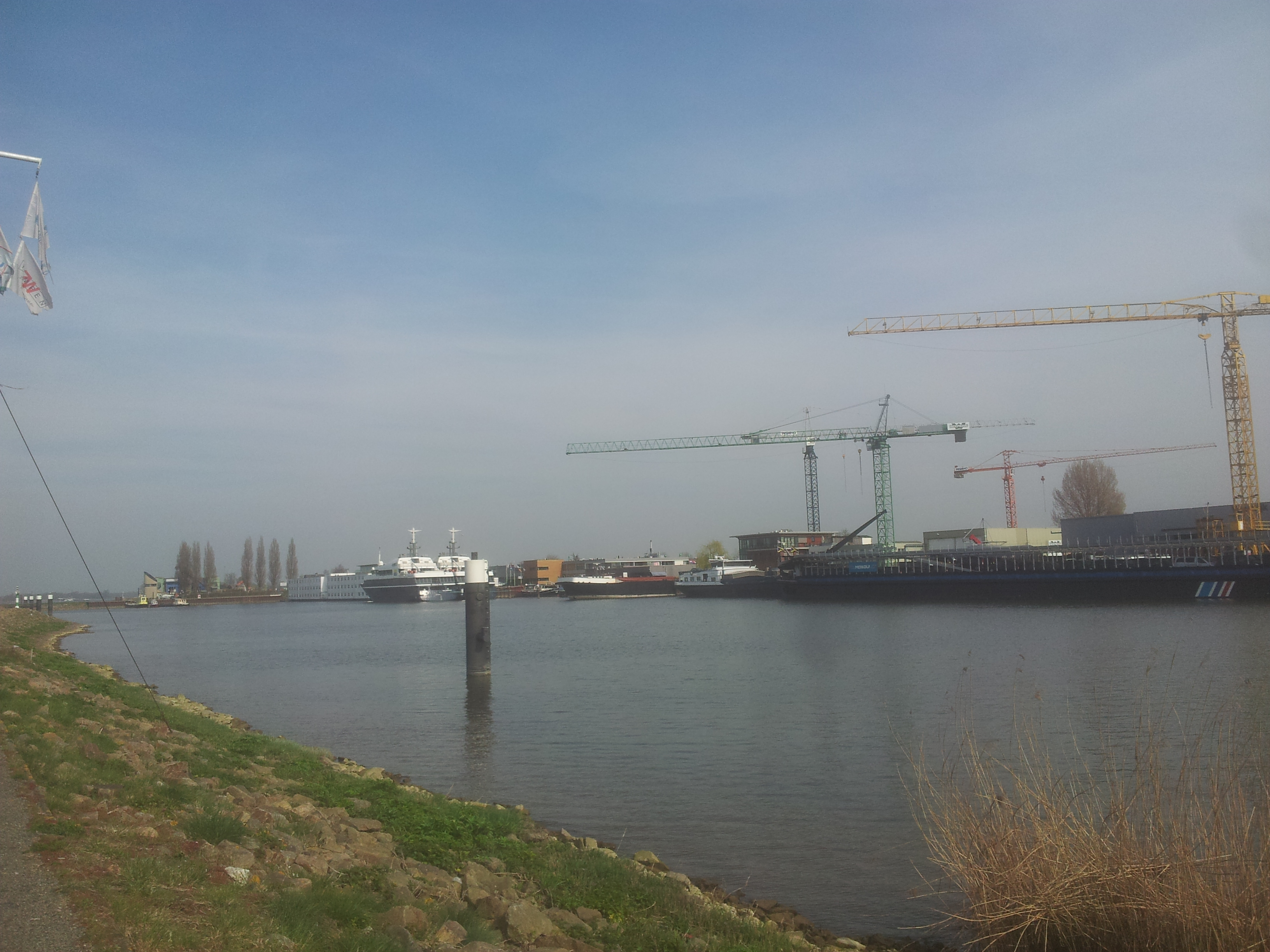 The Beatrixhaven in Werkendam, Netherlands